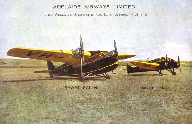 The short-lived (in its own right) Adelaide Airways issued this rare colour postcard showing two of the aircraft in its fleet. Short S.16/1 Scion 2 VH-UUT (c/n S.789) operated services Adelaide-Mt Gambier-Essendon whilst GAL Monospar ST.25 Model A VH-UUV (c/n GAL/ST25/48) operated Adelaide-Port Lincoln.